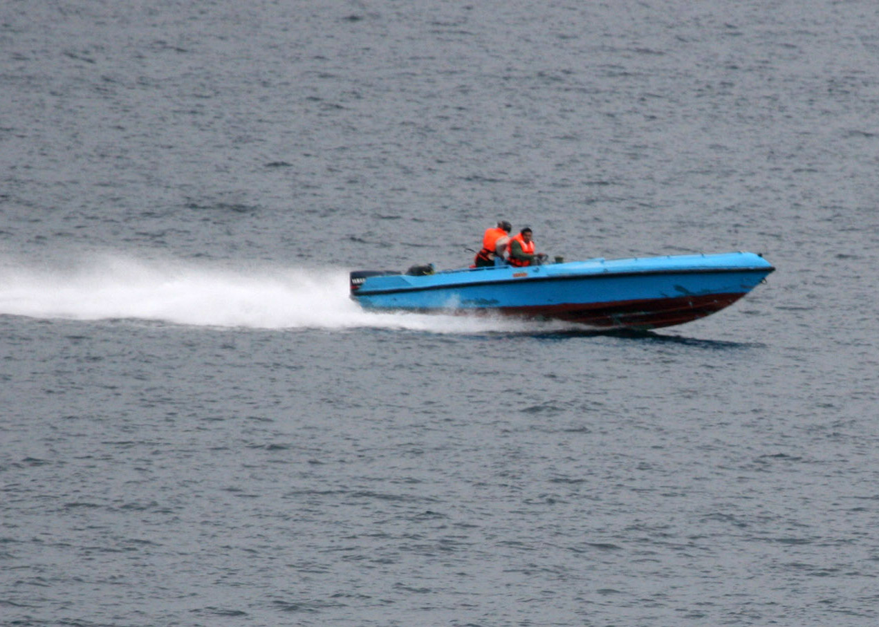 PERSIAN GULF (Jan. 6, 2008) Small craft suspected to be from the Islamic Republic of Iran Revolutionary Guard Navy (IRGCN), maneuver aggressively in close proximity of the U.S. Navy Aegis-class cruiser USS Port Royal (CG 73), Aegis-class destroyer USS Hopper (DDG 70) and frigate USS Ingraham (FFG 61). All three ships were steaming in formation and had just completed a routine Strait of Hormuz transit. Coalition vessels, including U.S. Navy ships, routinely operate in the vicinity of both Islamic Republic of Iran Navy and IRGCN vessels and aircraft, without incident. U.S. Navy photo (Released)